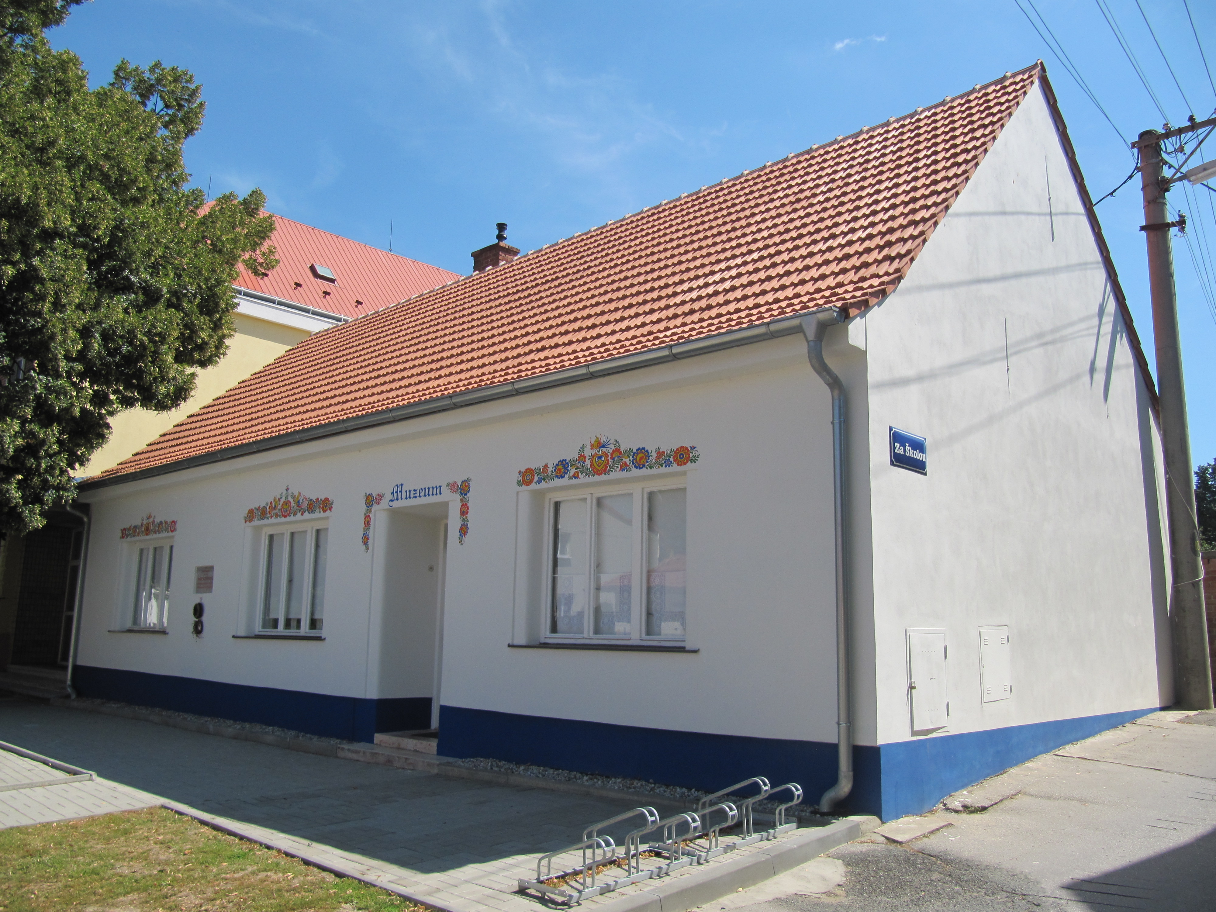 Vnorovy in Hodonín District, Czech Republic. Birthplace of Marie Kudeříková.